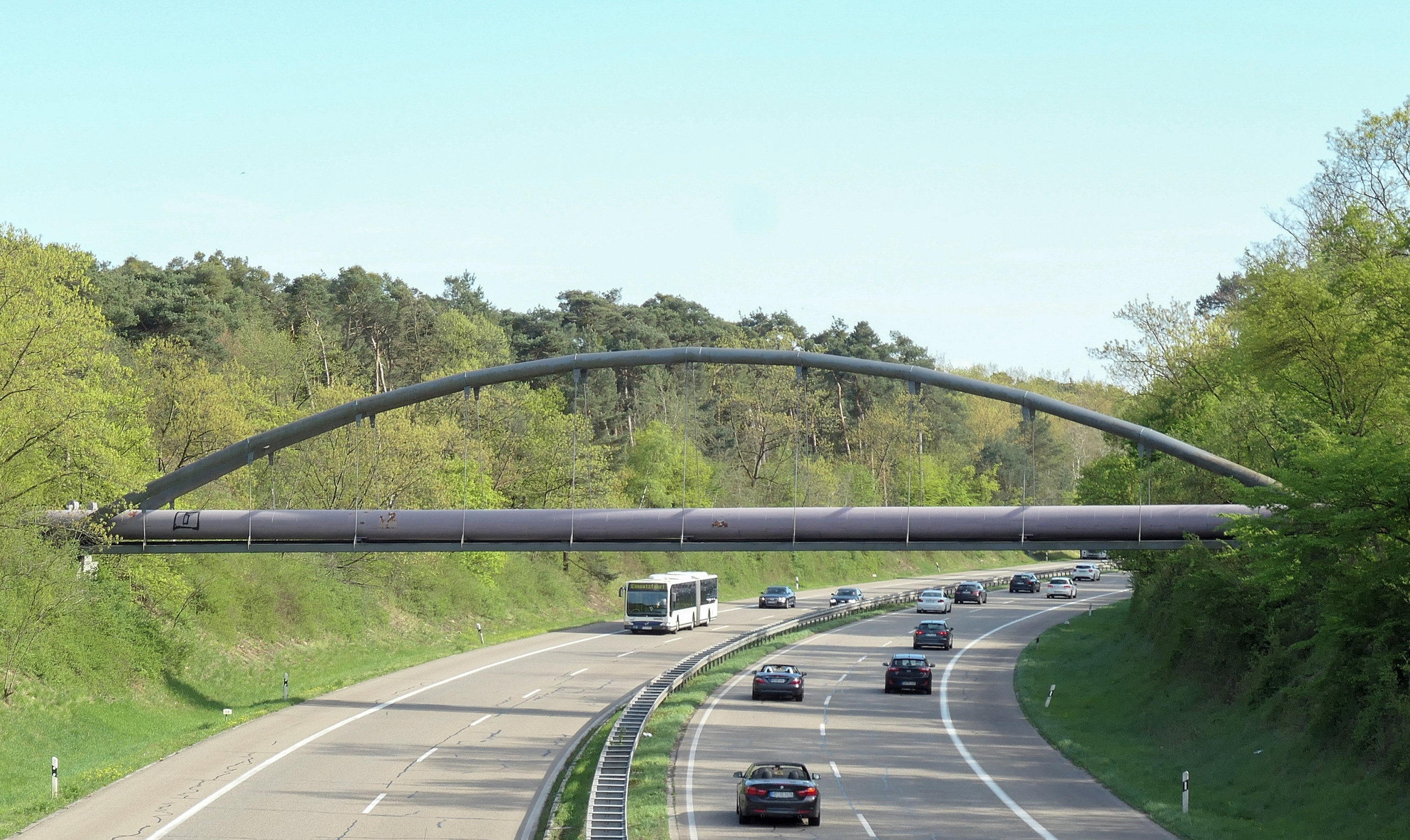 German federal highway B 36, near Mannheim-Rheinau